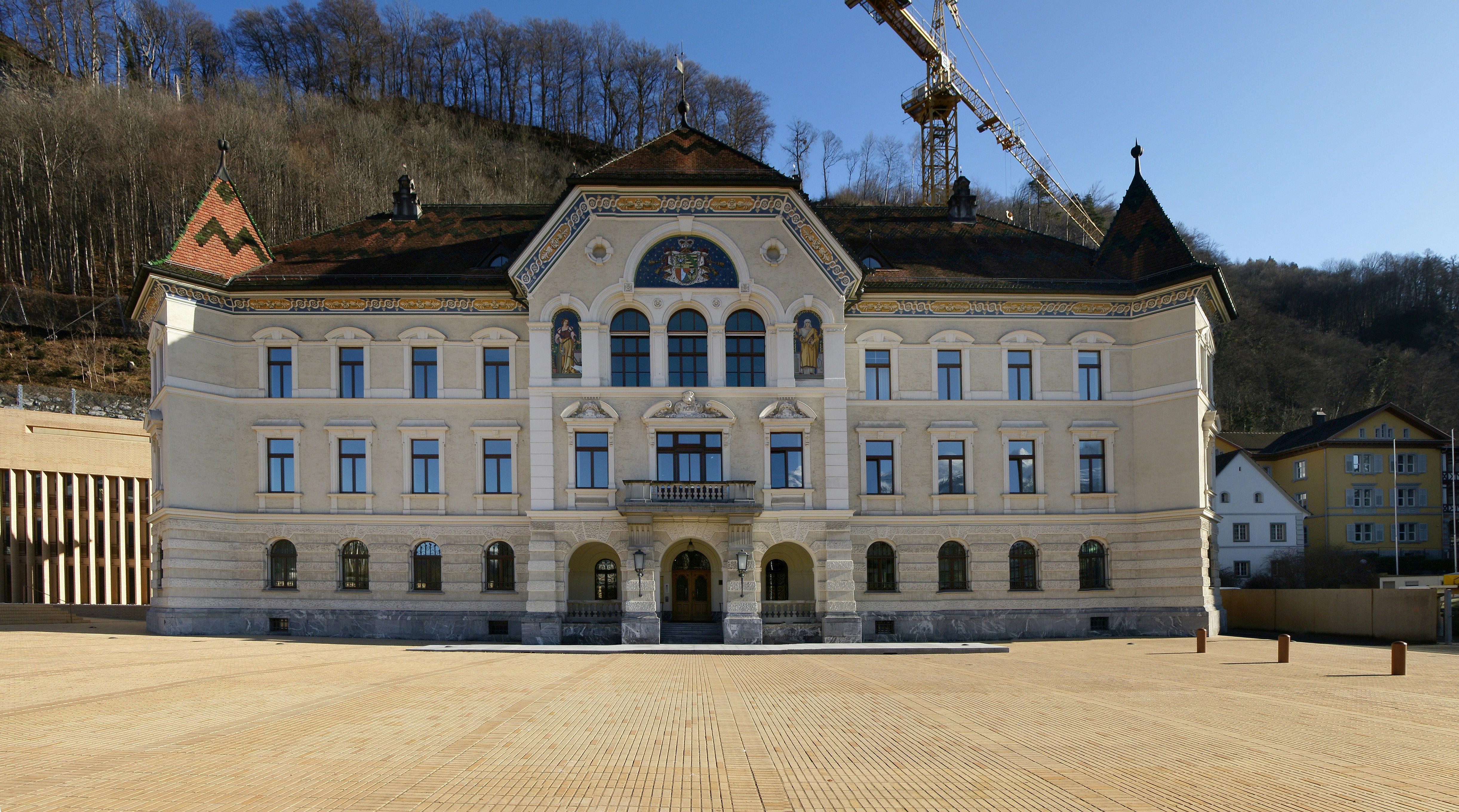 Regierungsgebäude (Government Building), Vaduz, Liechtenstein - Seat of the government and former seat of the parliament (untill 2007).